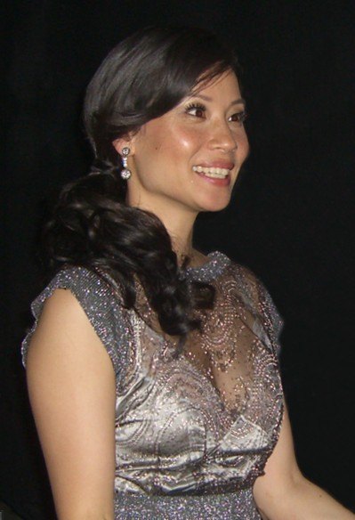 American actress Lucy Liu at the premiere screening of Watching the Detectives at the Tribeca Film Festival, 2007